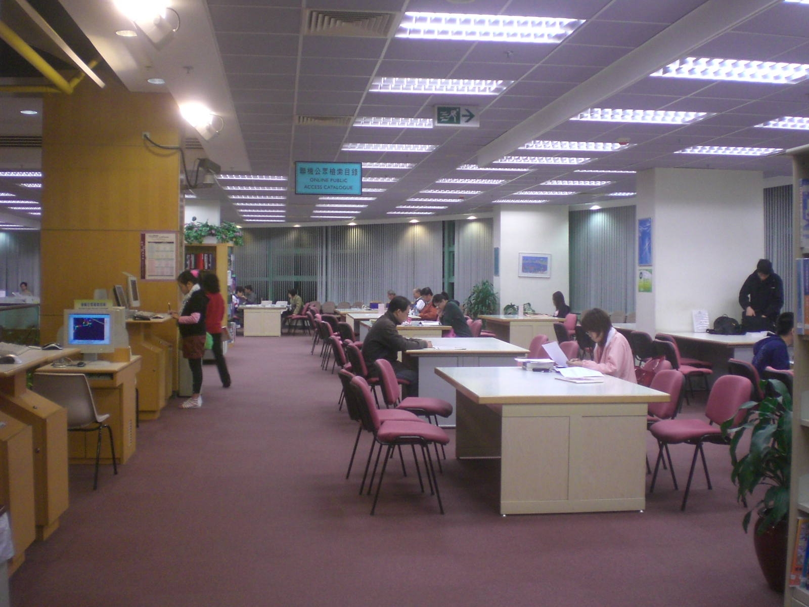 香港柴灣公共圖書館